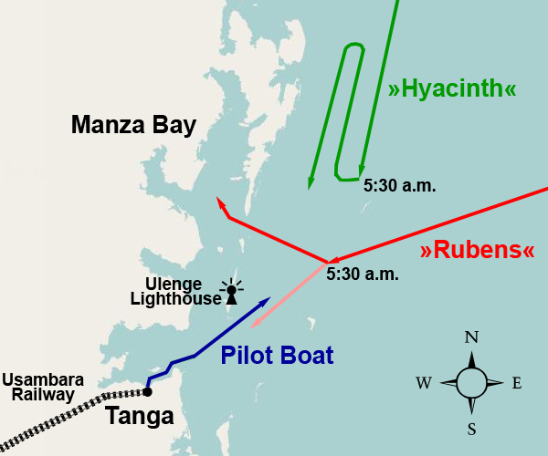 1915-04-14: Cruiser Hyacinth (Royal Navy) meets the german auxiliary ship Rubens at the coast of german east africa. Rubens escapes in the Manza Bay.